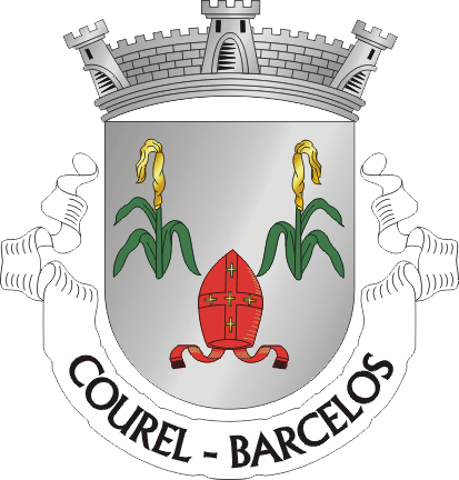 Crest of Courel, a parish in the municipality of Barcelos (Portugal)